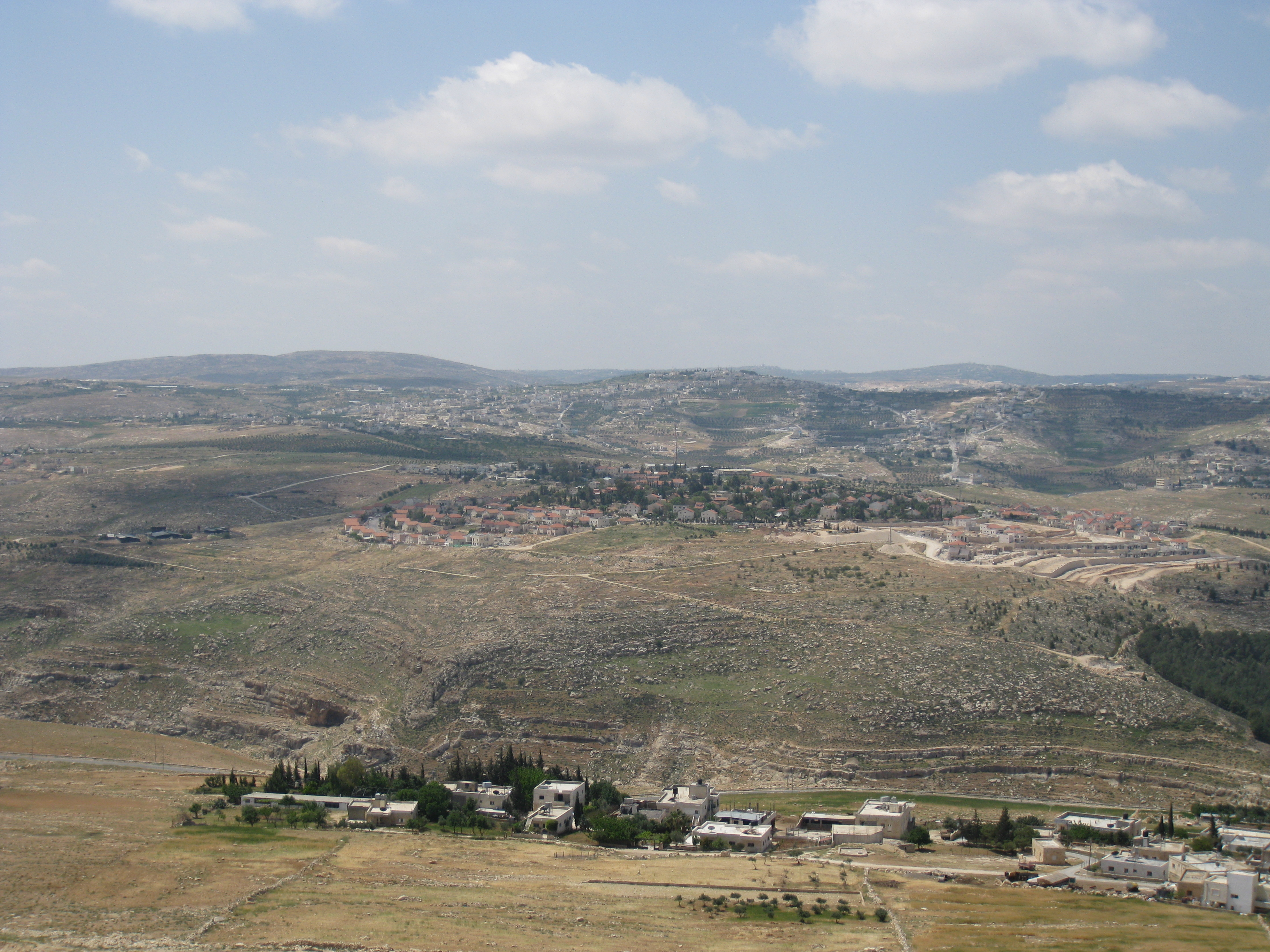 Views from Herodion (Herodyon, Herodium) - Tekoa, behind Tekoa on the right is Khirbet al-Deir and in the center left is Tuqu'. מבט מהרודיון - תקוע